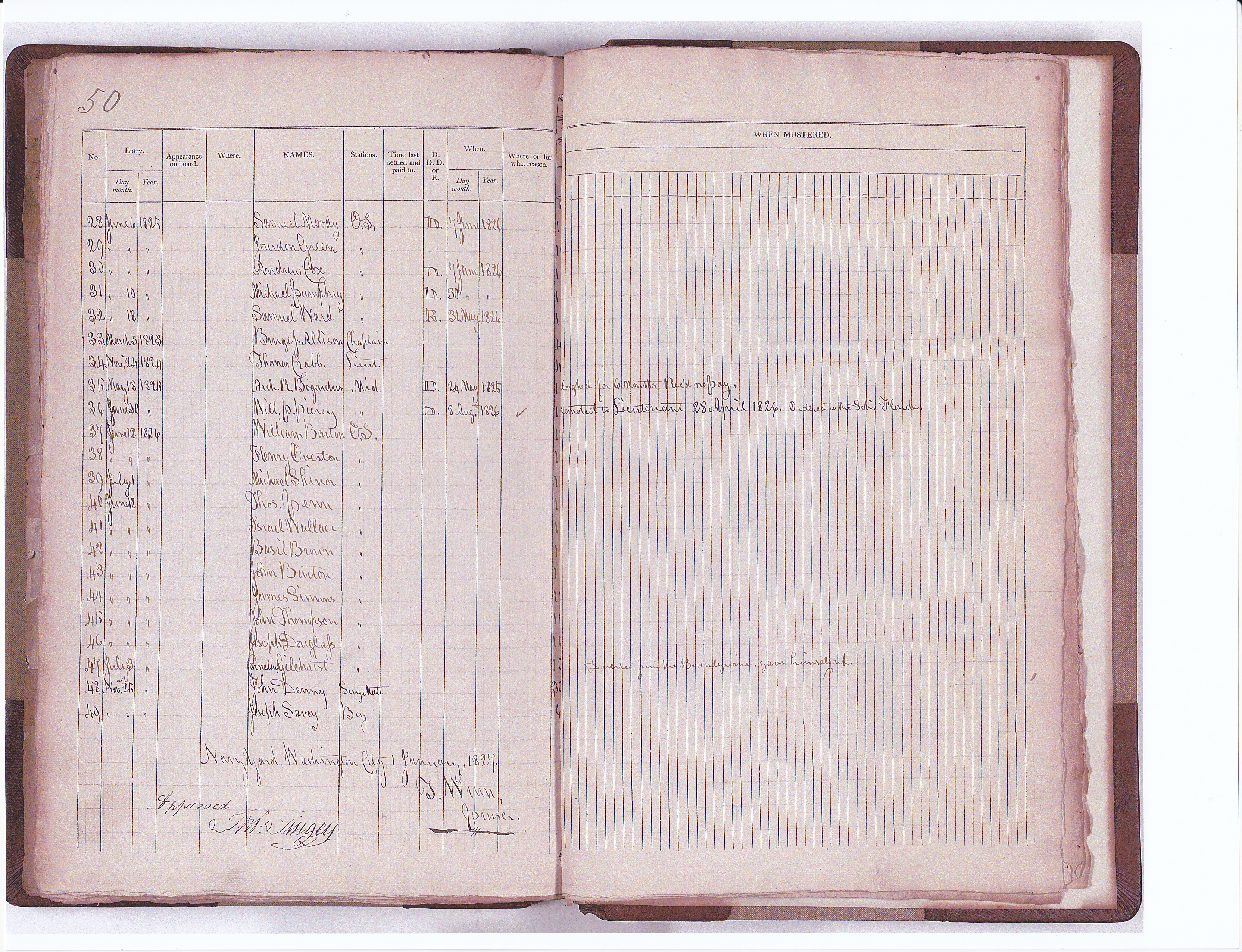 Muster of the Washington Navy Yard Ordinary, dated 1 Jan 1827. Michael Shiner is listed "Ordinary Seaman" many of the other individuals enumerated as ordinary seamen are in fact enslaved.